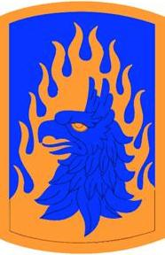 12th Aviation Brigade Shoulder Sleeve Insignia